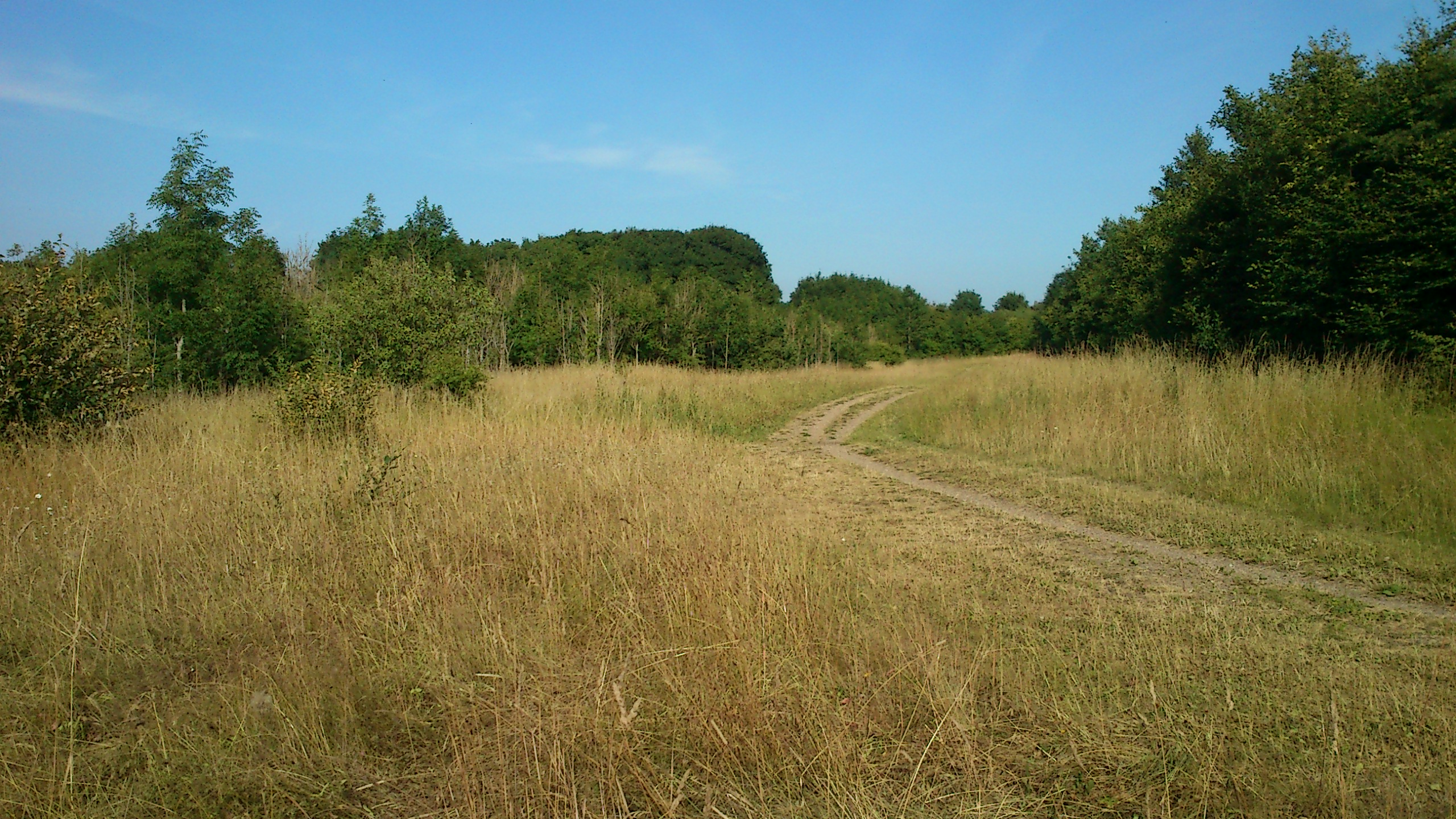 From the Eastern parts of True Skov in Skjoldhøjkilen.